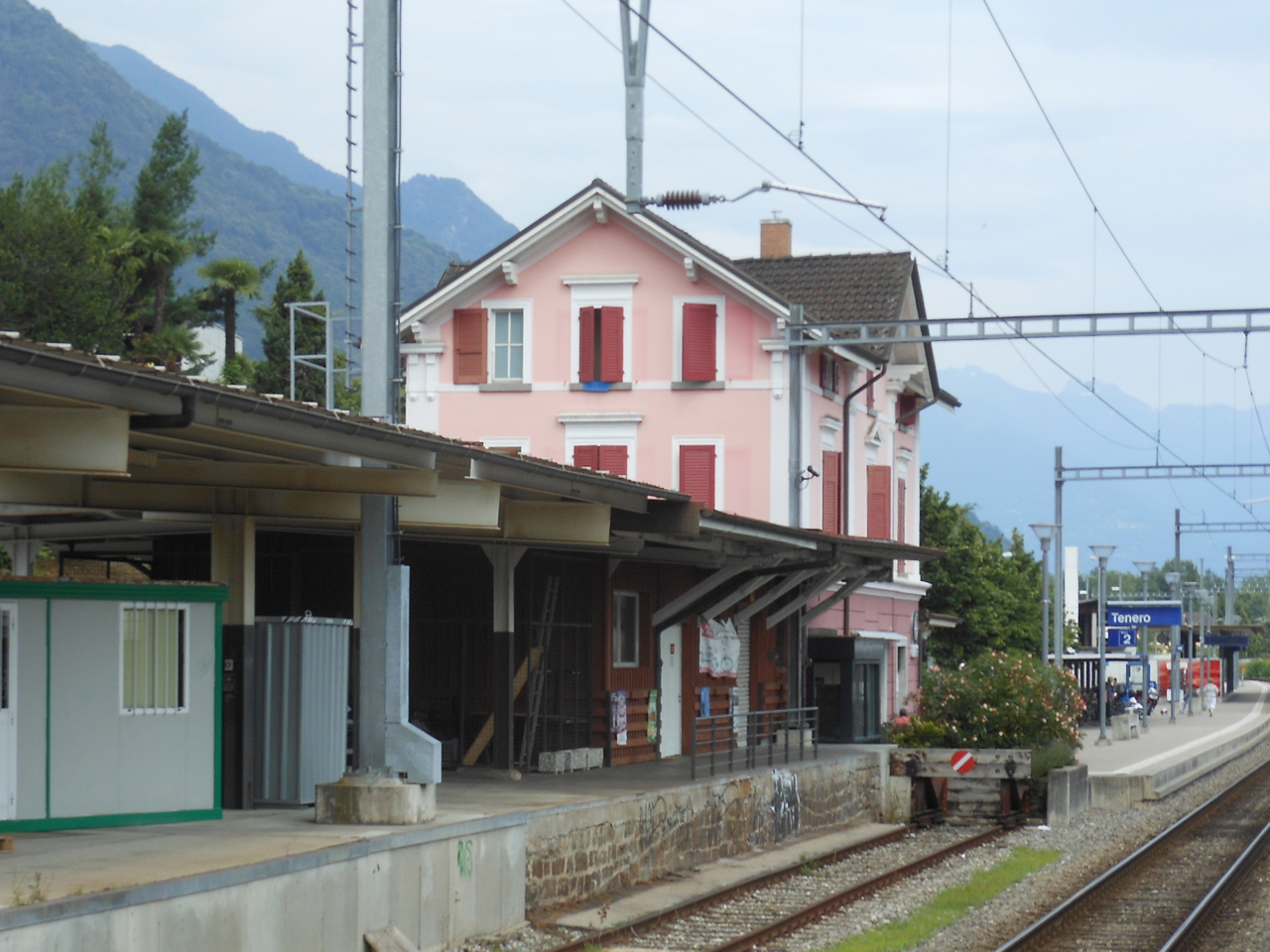 Tenero train station.